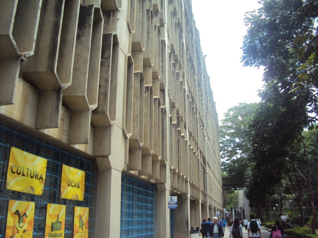 UCAB Caracas Campus